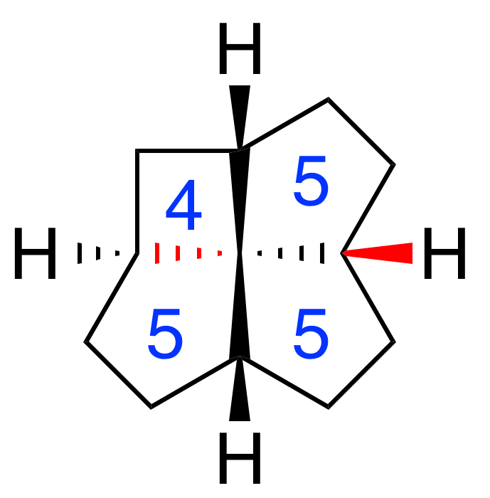 Skeletal structure of c,t,c,c-[4.5.5.5]fenestrane. The ring-sizes are in blue (one cyclobutane and three cyclopentanes). The two red bonds illustrate the trans geometry of the adjacent fused 5/5 rings. The other ring fusions each have cis geometry.